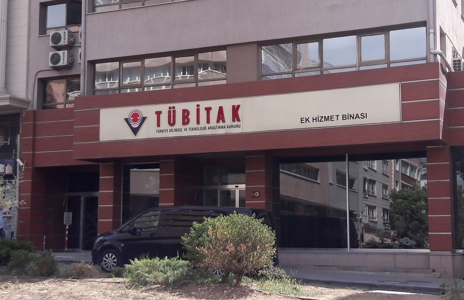 Ankara'da TÜBİTAK'ın ek binası.